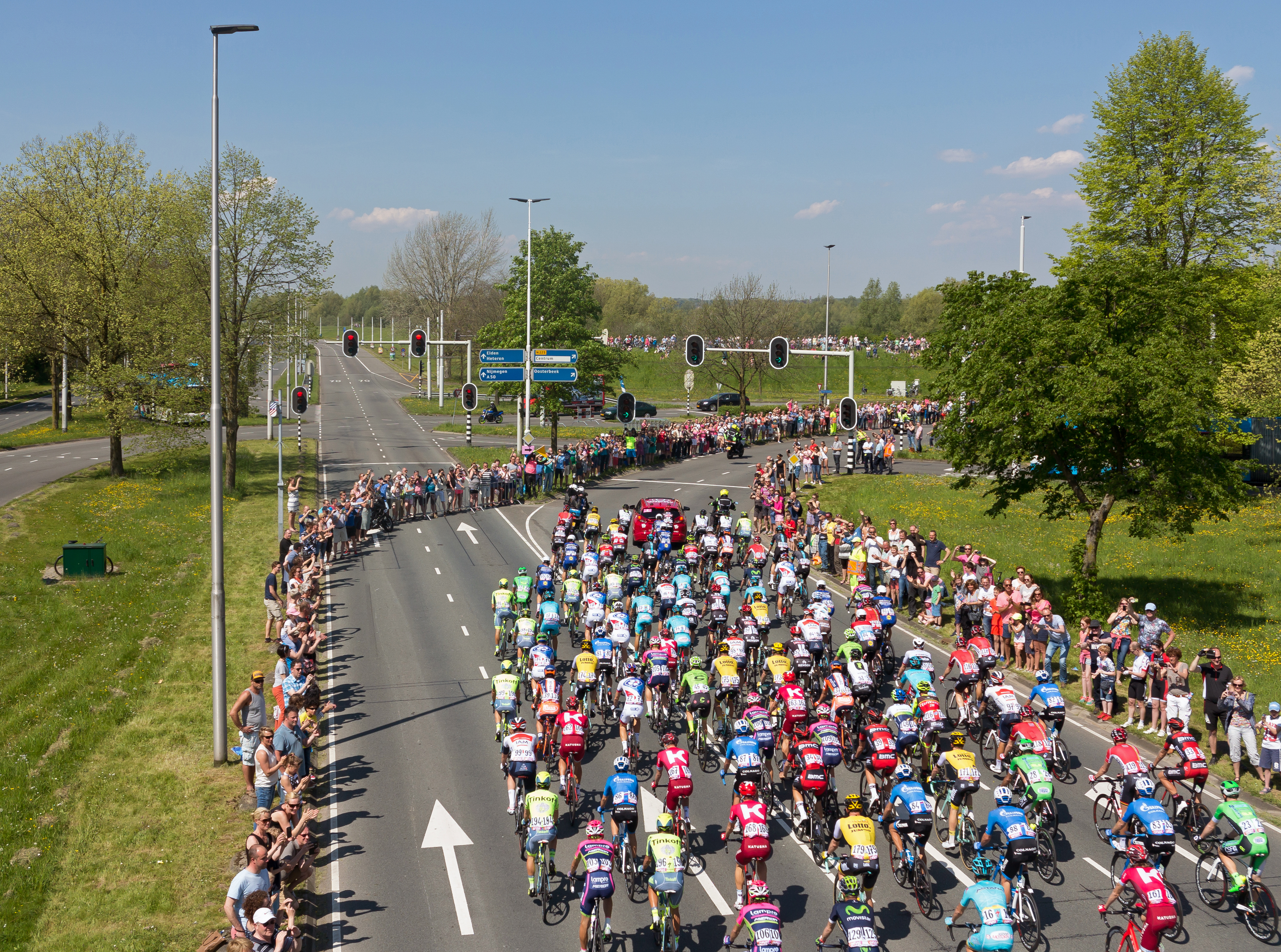 Arnhem Gelredome-traverse, peloton Giro d'Italia 2nd stage